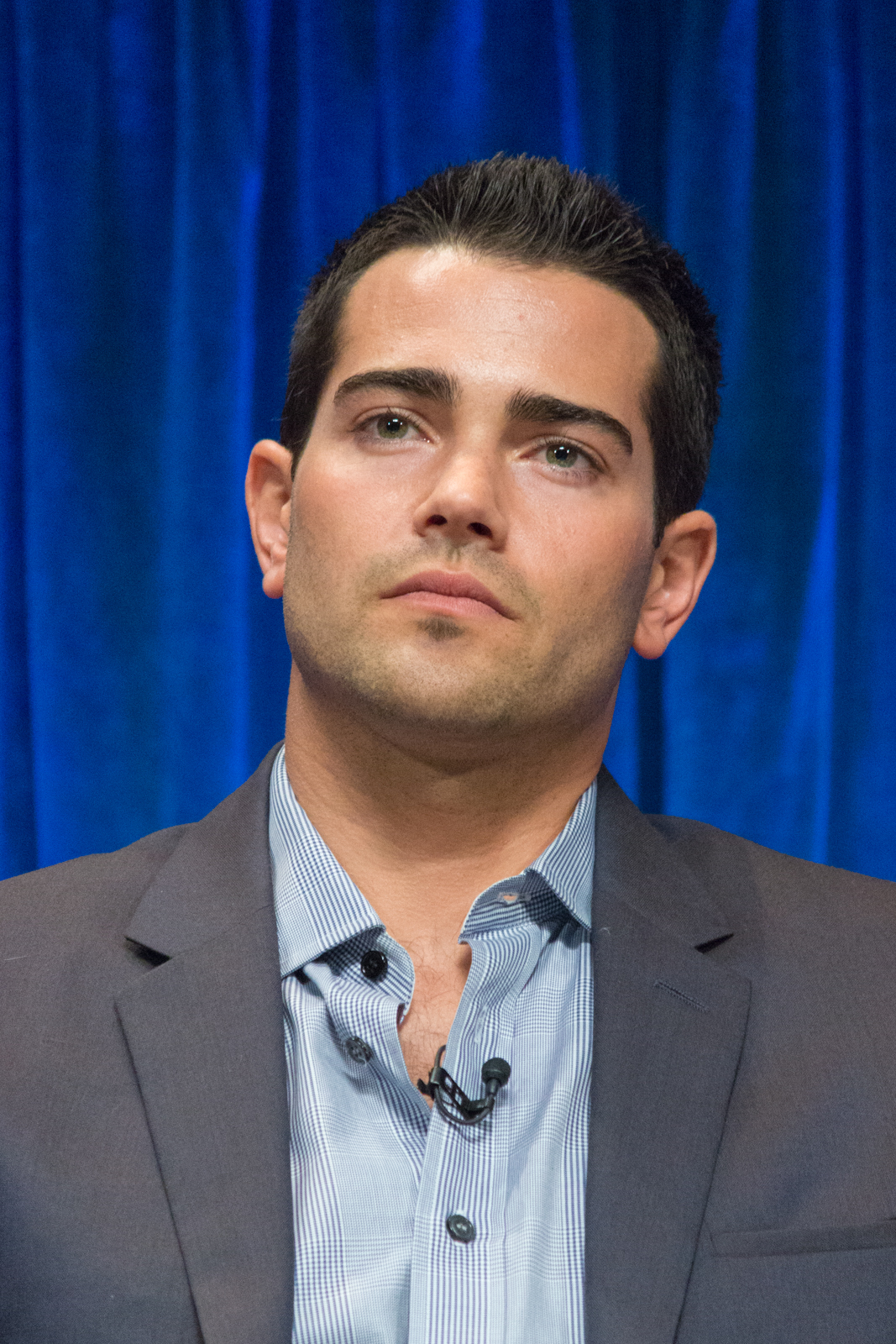 Jesse Metcalfe at the PaleyFest 2013 forum on the TV show Dallas